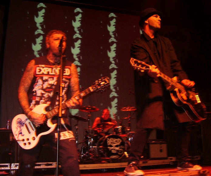 Rancid in Ventura, Ca on Sept 24 2008